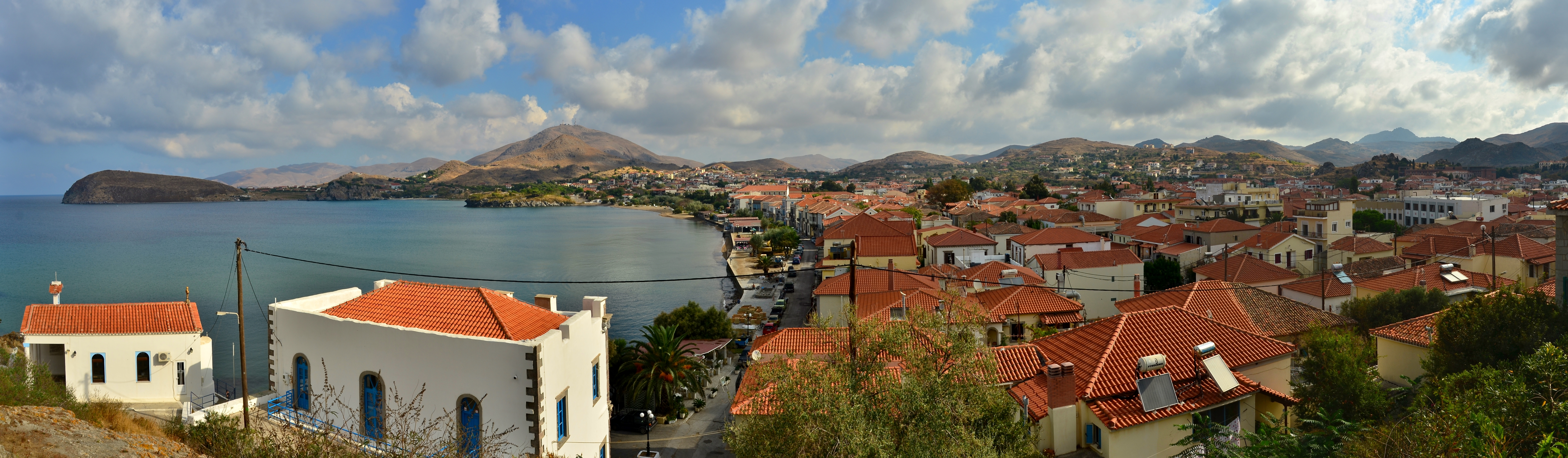 View of Myrina, Lemnos.